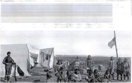 Taking possesion of Teller Reindeer Station, June 29, 1892. Photograph by M. A. Bruce